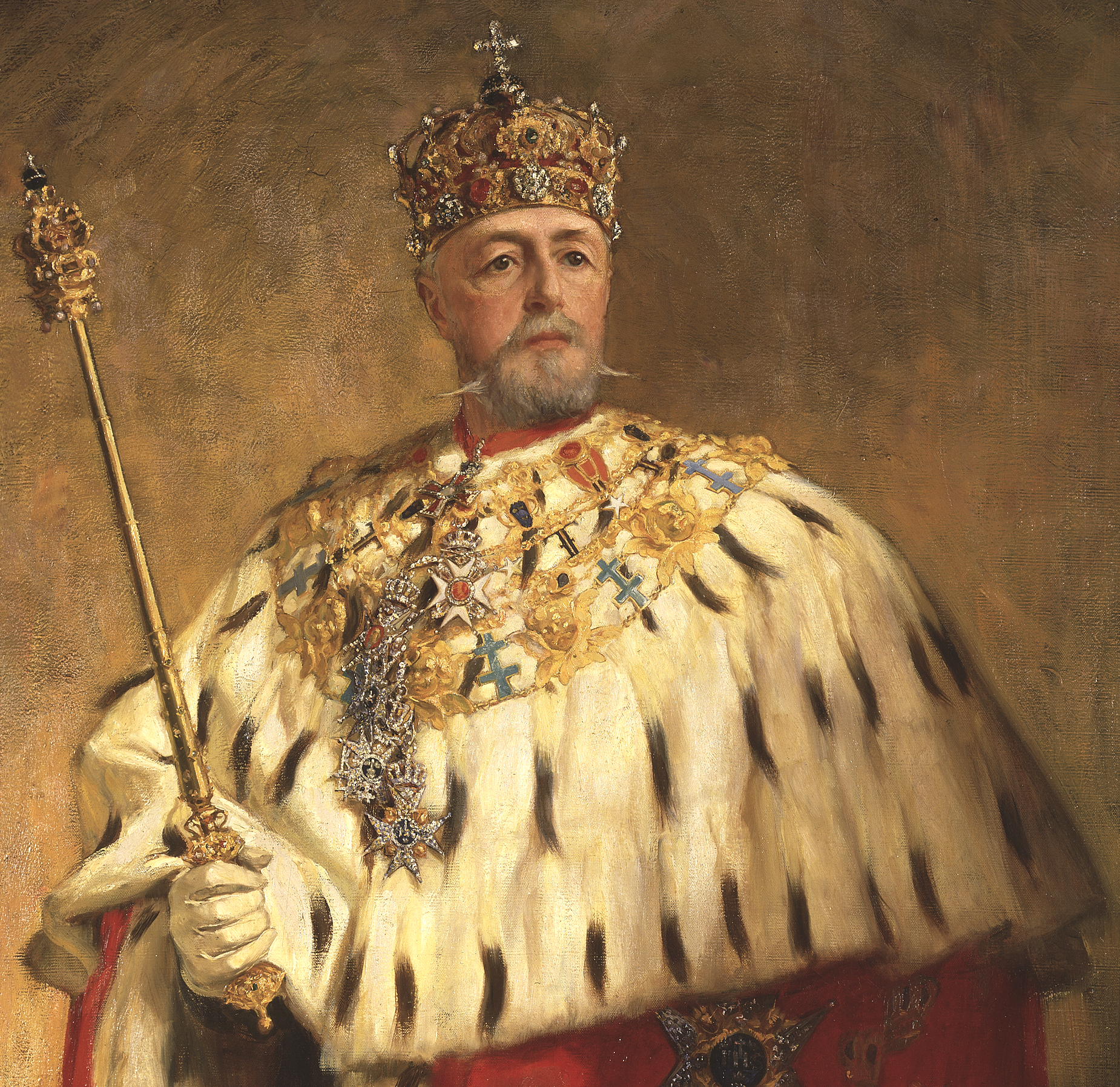 "The brilliantly coloristic portrait of King Oskar II was painted by Oscar Björck for the royal silver jubilee – a last visual manifestation of royal power by divine right."